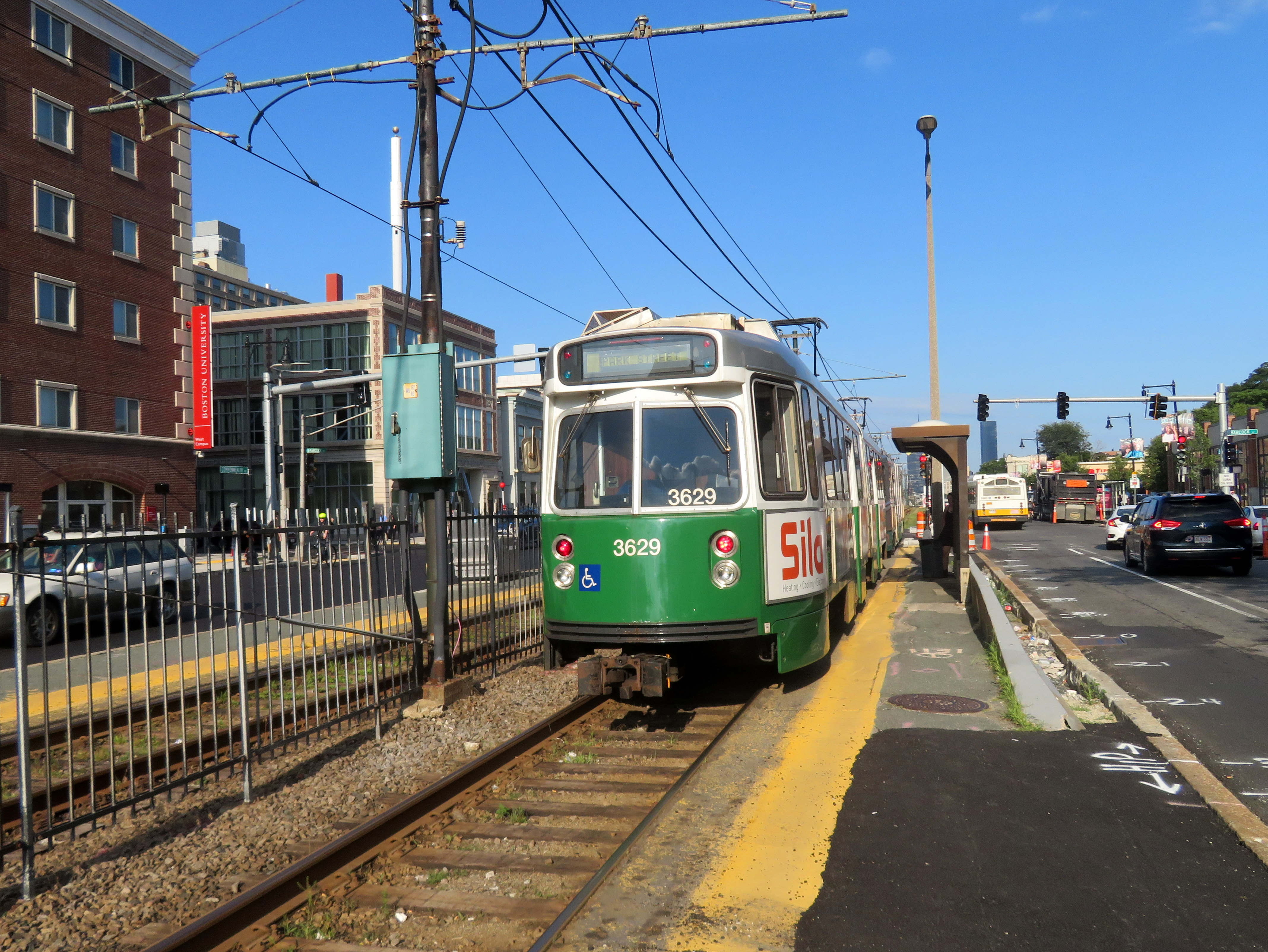 An inbound train at Babcock Street station in July 2019